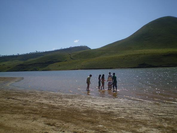 Ponte Preta Dam, Santos Dumont MG